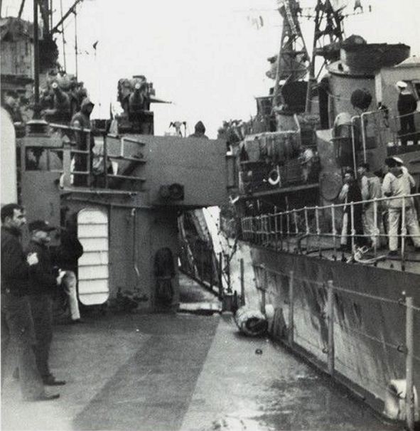 The Soviet Spokoynyy-class destroyer Besslednyy (022), right, collides with the U.S. Navy destroyer USS Walker (DD-517) on 10 May 1967. Soviet ships harassed the USS Hornet (CVS-12) carrier group operating in the Sea of Japan and USS Walker collided with two destroyers on 10 and 11 May 1967.